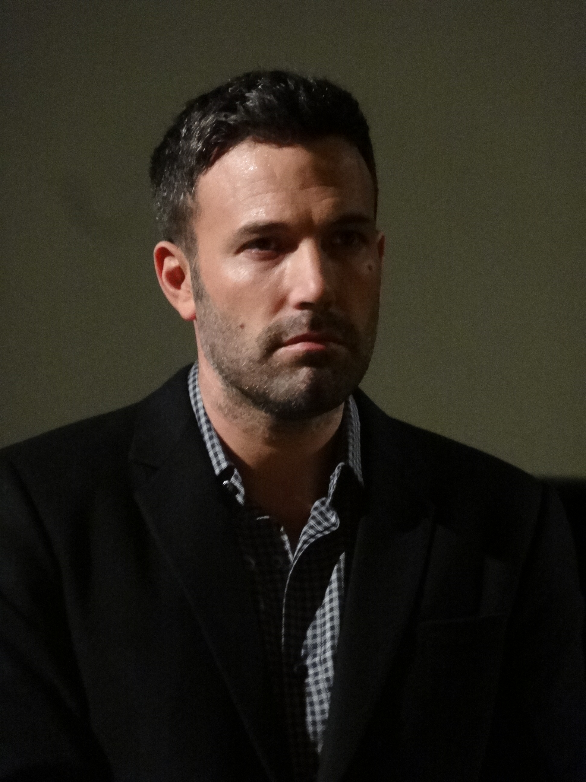 Ben Affleck at Argo's Press Conference in Paris.